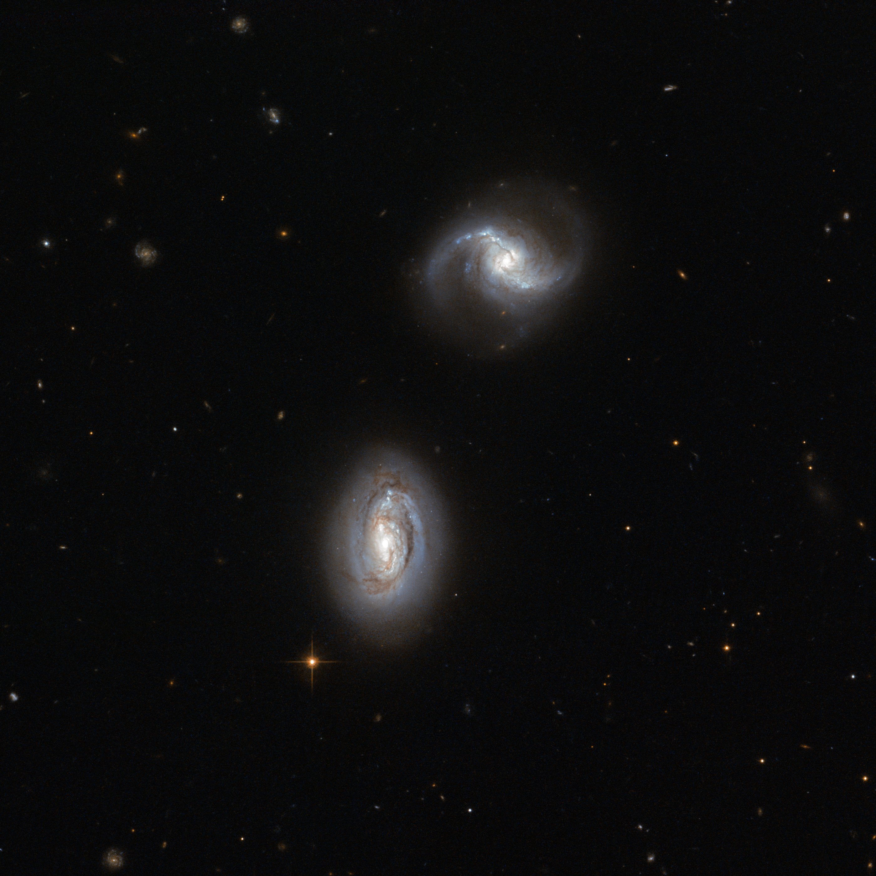 Looking towards the constellation of Triangulum (The Triangle), in the northern sky, lies the galaxy pair MRK 1034. The two very similar galaxies, named PGC 9074 and PGC 9071, are close enough to one another to be bound together by gravity, although no gravitational disturbance can yet be seen in the image. These objects are probably only just beginning to interact gravitationally. Both are spiral galaxies, and are presented to our eyes face-on, so we are able to appreciate their distinctive shapes. On the left of the image, spiral galaxy PGC 9074 shows a bright bulge and two spiral arms tightly wound around the nucleus, features which have led scientists to classify it as a type Sa galaxy. Close by, PGC 9071 — a type Sb galaxy — although very similar and almost the same size as its neighbour, has a fainter bulge and a slightly different structure to its arms: their coils are further apart. The spiral arms of both objects clearly show dark patches of dust obscuring the light of the stars lying behind, mixed with bright blue clusters of hot, recently-formed stars. Older, cooler stars can be found in the glowing, compact yellowish bulge towards the centre of the galaxy. The whole structure of each galaxy is surrounded by a much fainter round halo of old stars, some residing in globular clusters. Gradually, these two neighbours will attract each other, the process of star formation will be increased and tidal forces will throw out long tails of stars and gas. Eventually, after maybe hundreds of millions of years, the structures of the interacting galaxies will merge together into a new, larger galaxy. The images combined to create this picture were captured by Hubble's Advanced Camera for Surveys (ACS). A version of this image was submitted to the Hubble’s Hidden Treasures image processing competition by Judy Schmidt.